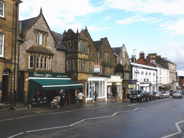 Fore Street, Chard